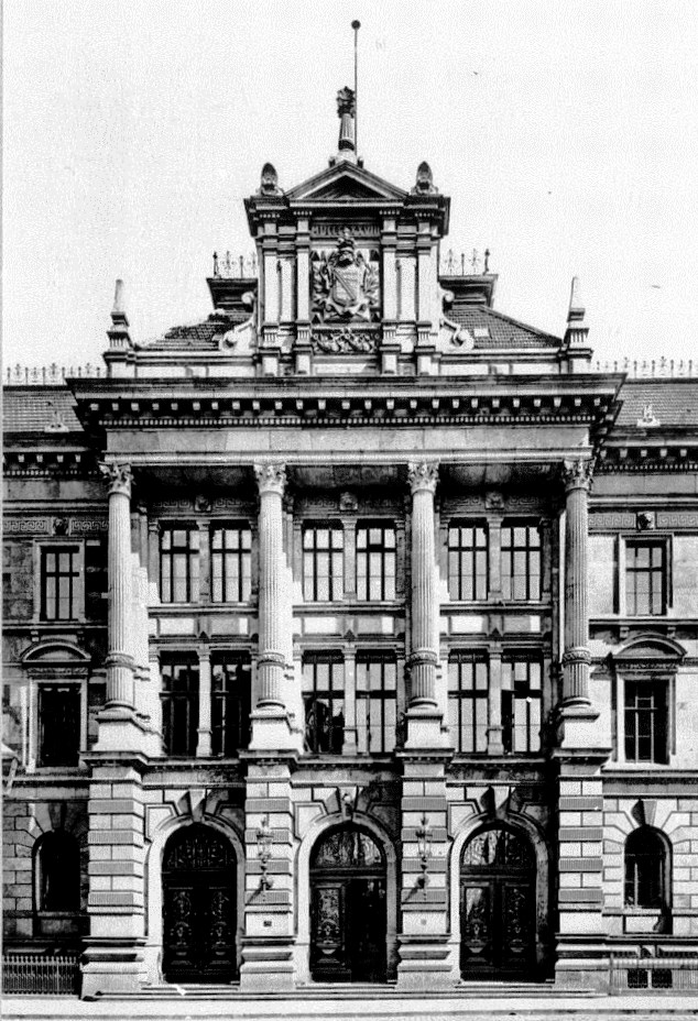 Dresden